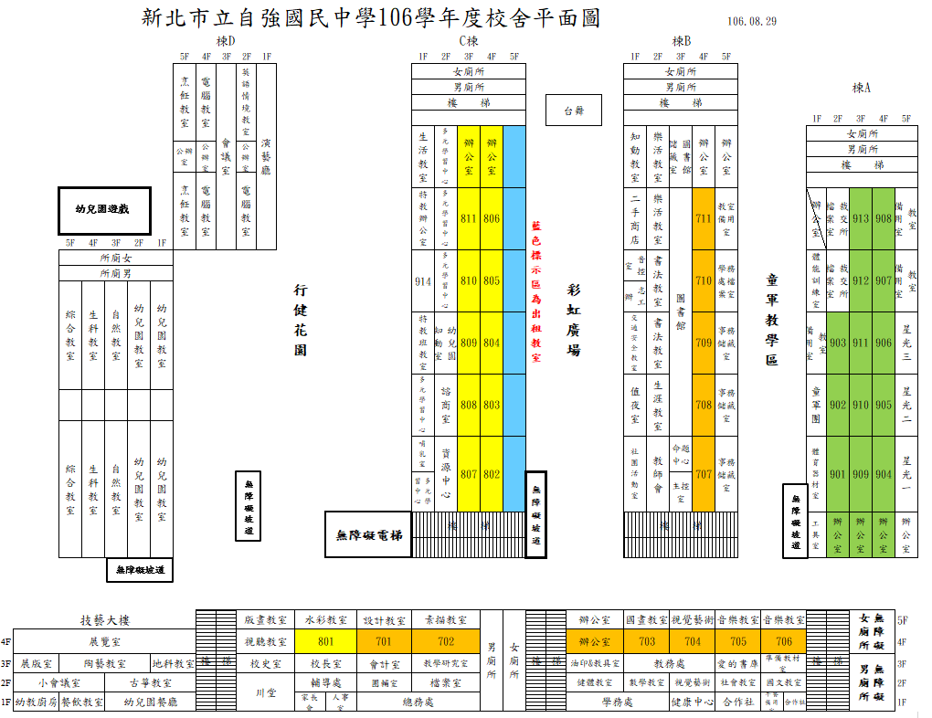 The schoolhouses of Ziqiang Junior High School in New Taipei City, Taiwan